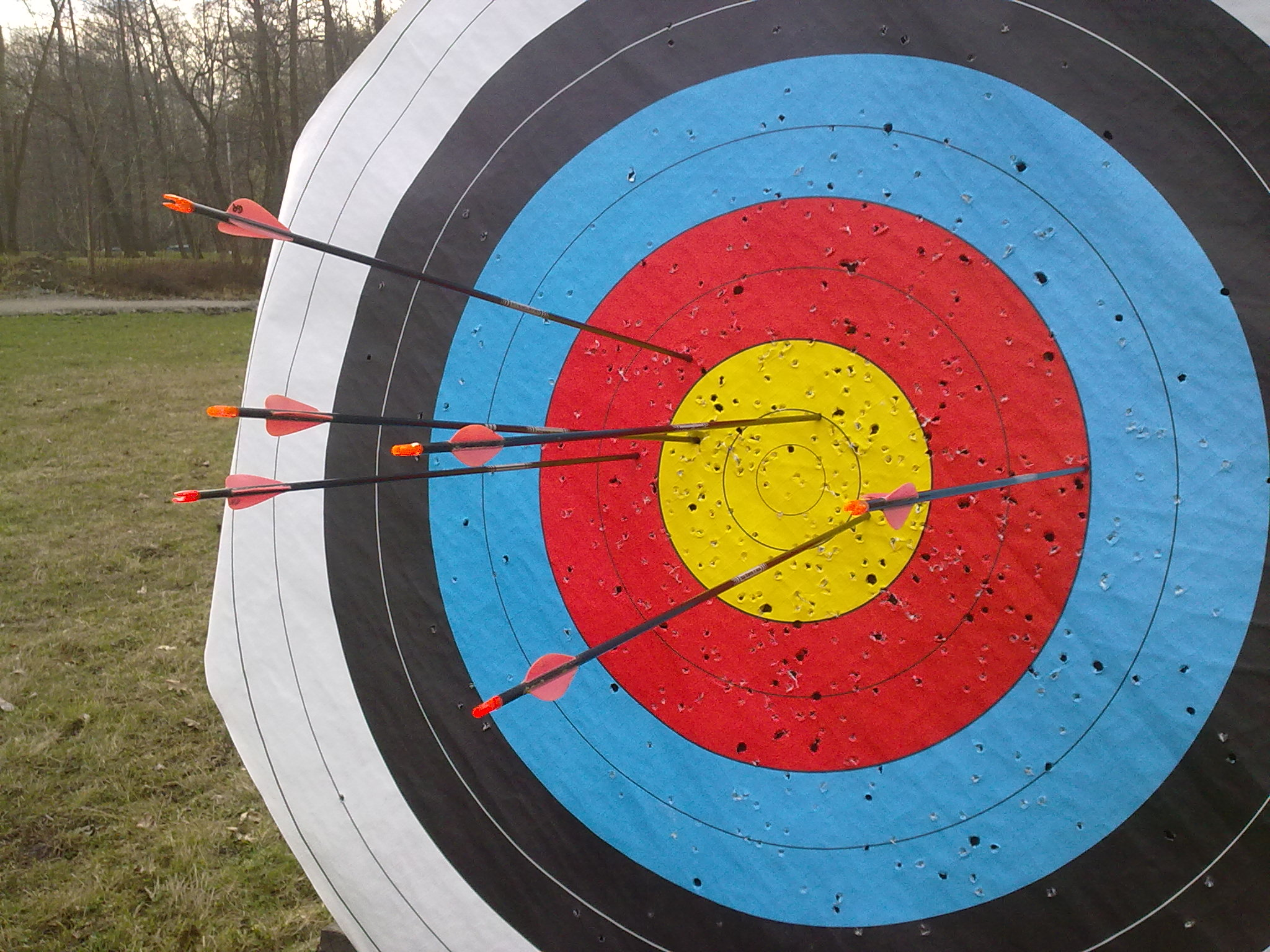 Archery